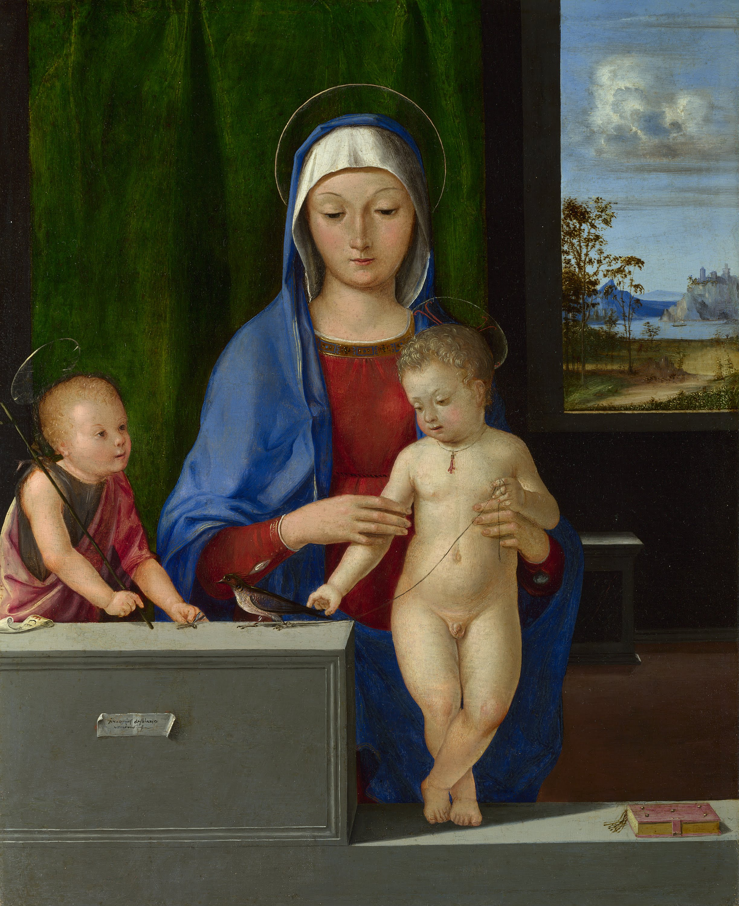 Depicted people: Mary (Mother of Jesus), Jesus and John the Baptist